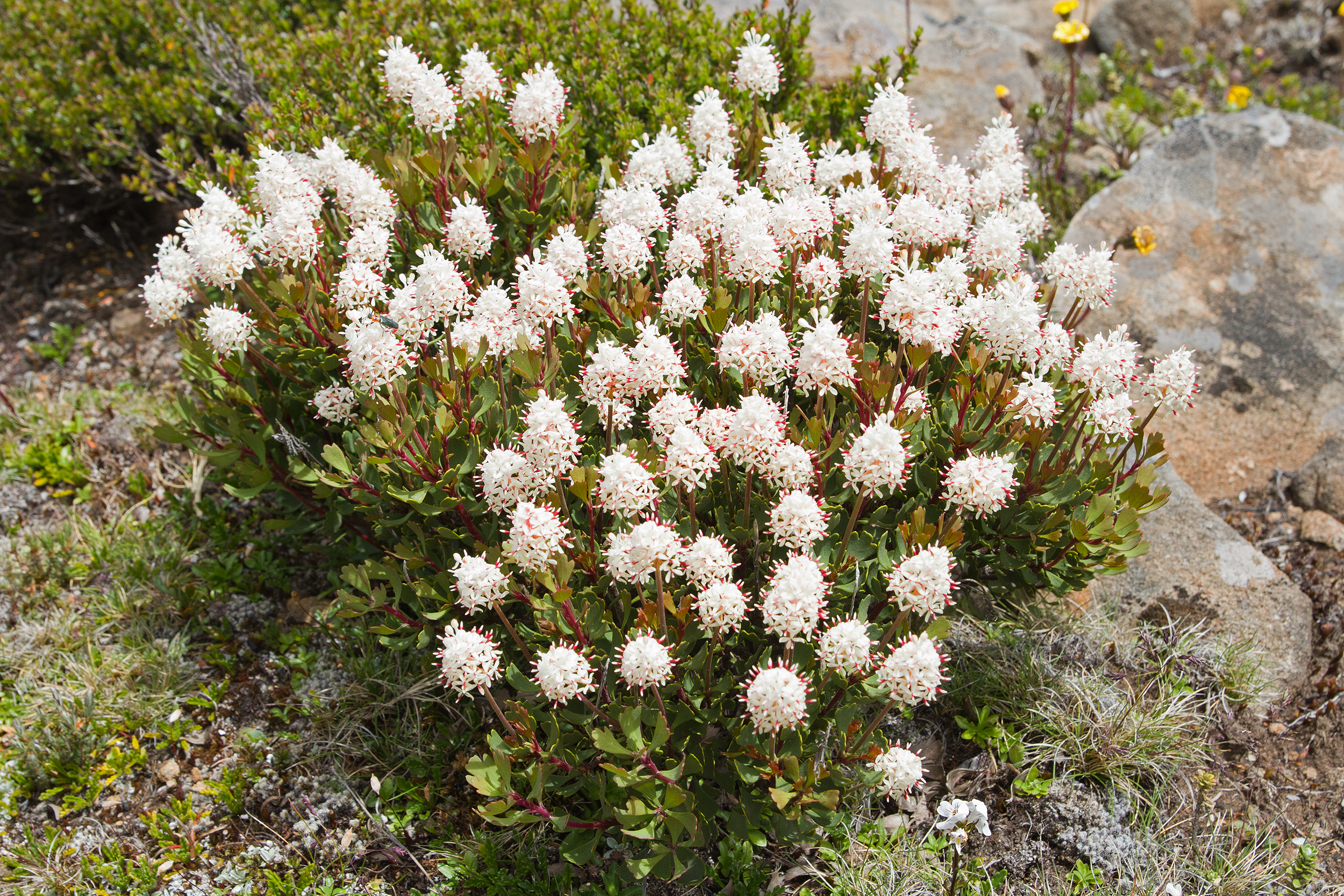 Bellendena montana, Walls of Jerusalem National Park, Tasmania, Australia